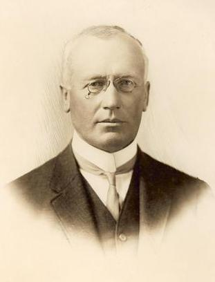 Sir William Irvine, Premier of Victoria, Australia, Jun 1902 - Feb 1904.